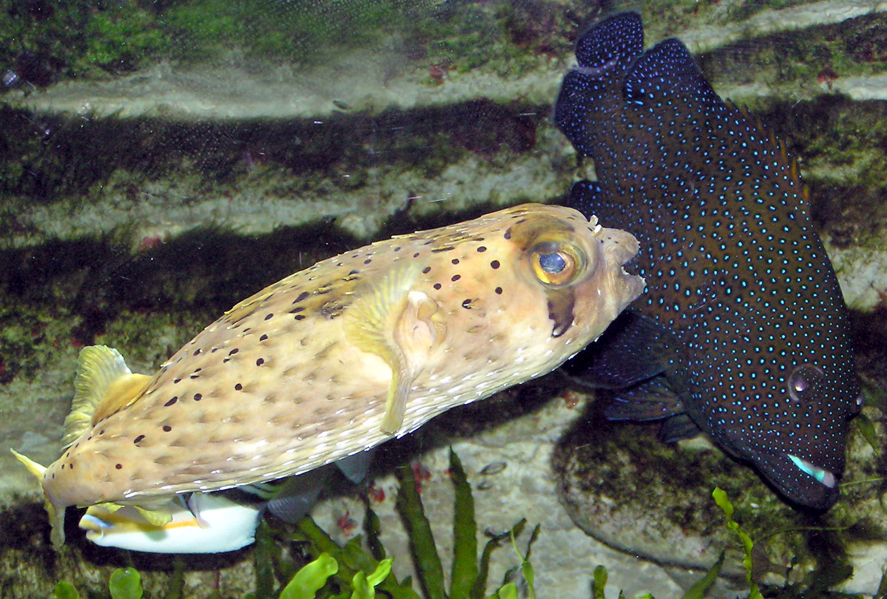 Porcupine pufferfish (Diodon holocanthus) at Bristol Zoo, Bristol, England. On the right is a Blue-spotted grouper (Cephalopholis argus) and (partially hidden on left) a Picasso triggerfish.